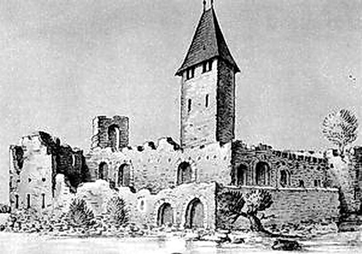 Ouchy in Lausanne : Ouchy castle, ruins seen as of 1669